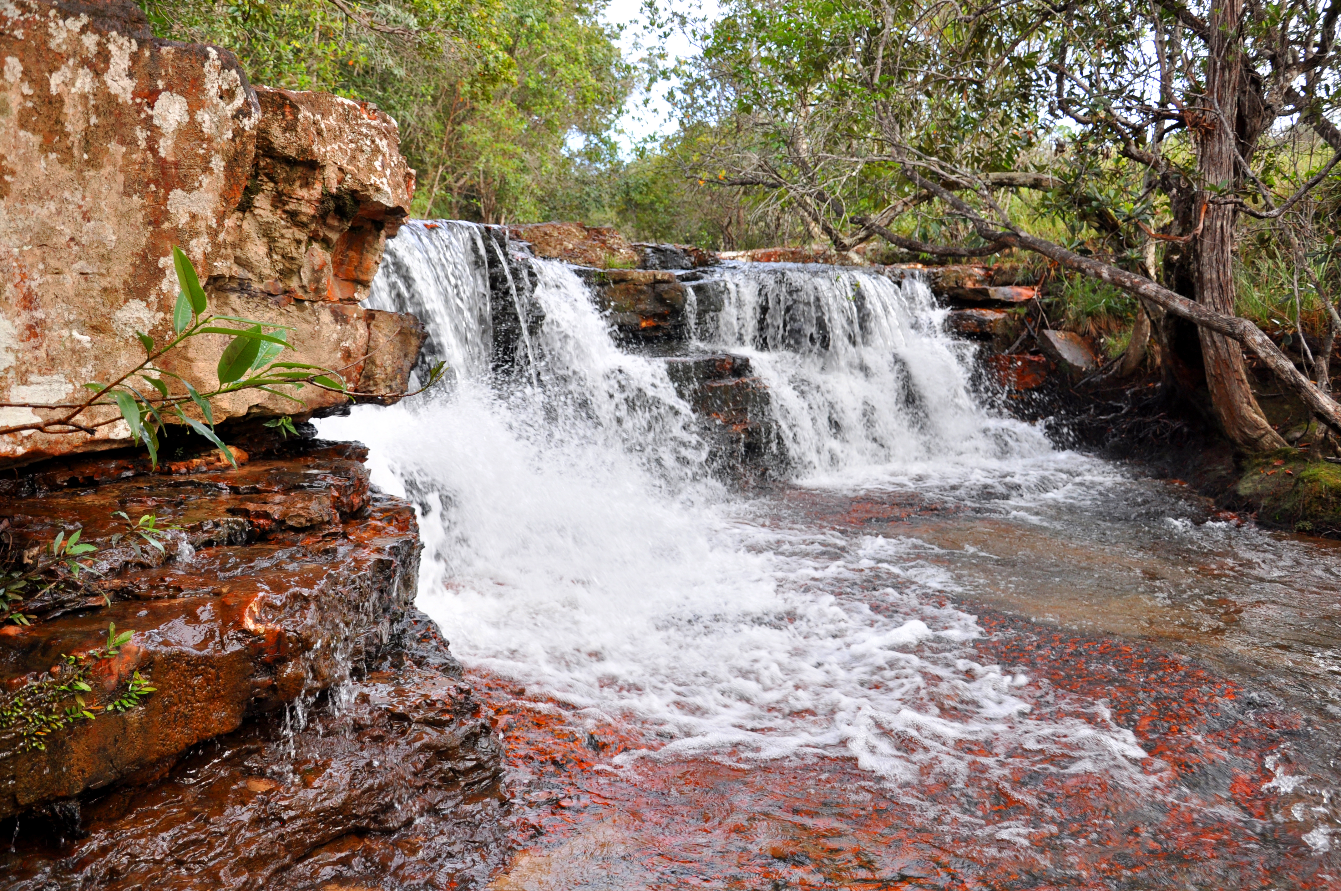 Quebrada de Jaspe, a jasper creek situated in Gran Sabana National Park, Venezuela.